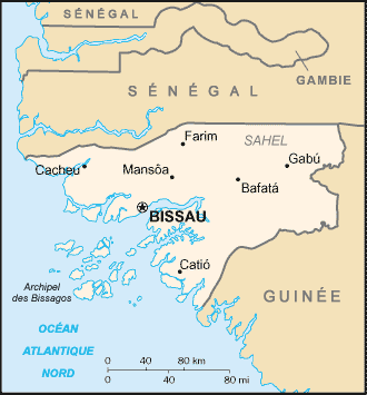 Map in French of Guinea-Bissau